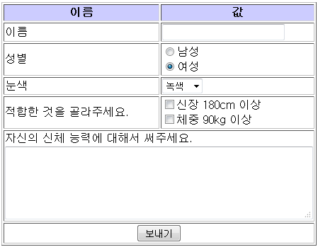 A sample form in HTML and generated with Mozilla Firefox. This form shows a combined sample of (in order from top to bottom): a text box a pair of radio buttons a select box a pair of check boxes a text area a submit button